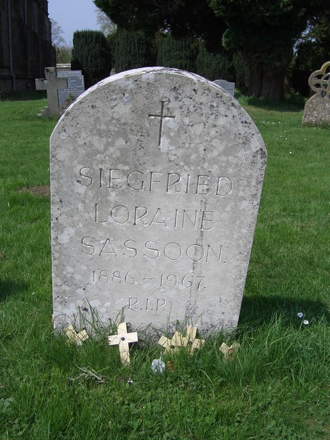 Siegfried Sassoon one of several well known people buried in Mells Churchyard